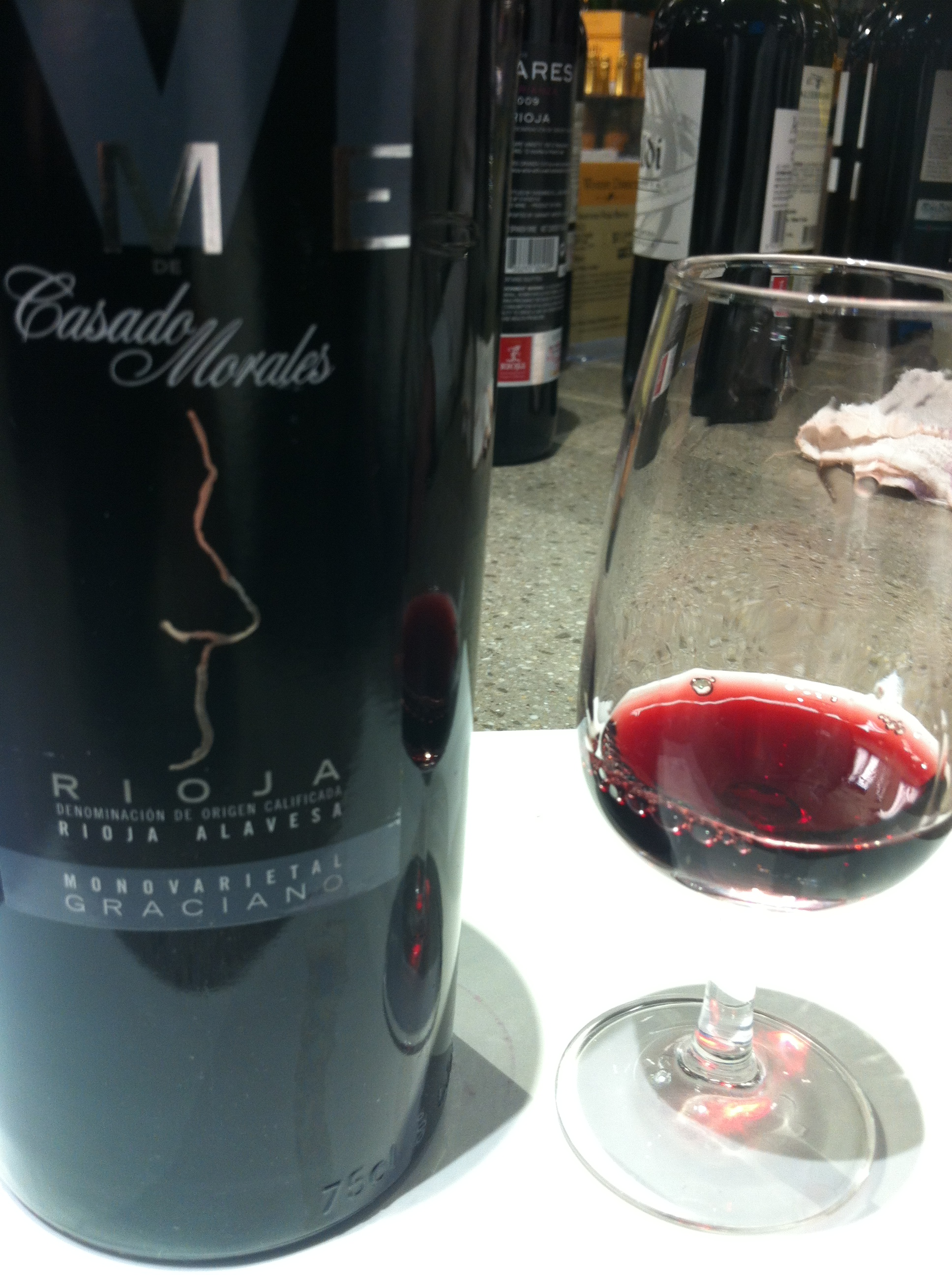 Spanish red wine from the Rioja region made from the Graciano grape